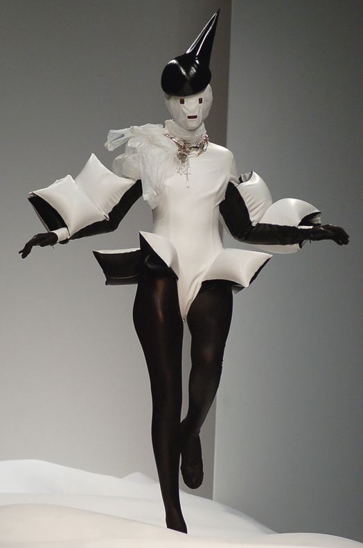 Gareth Pugh design shown at London Fashion Week (Spring 2007 collection)